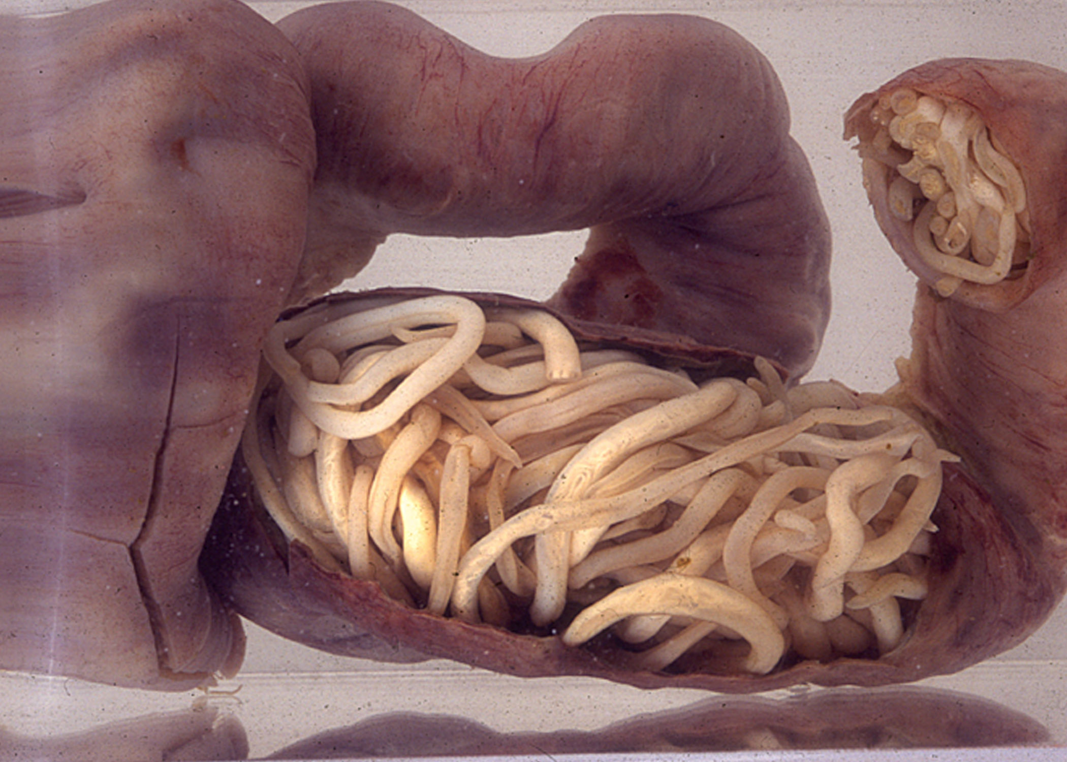 This piece of intestine, blocked by worms, was surgically removed from a 3-year-old boy at Red Cross Children’s Hospital. The child survived, but no child should be subjected to such an easily preventable condition. Photo: Allen Jefthas Credit: South African Medical Research Council. This photo appeared here: Research brief from 2006 from South Africa: Photo provided by Lyn Hanmer, PhD Burden of Disease Research Unit and WHO Collaborating Centre for the Family of International Classifications South African Medical Research Council